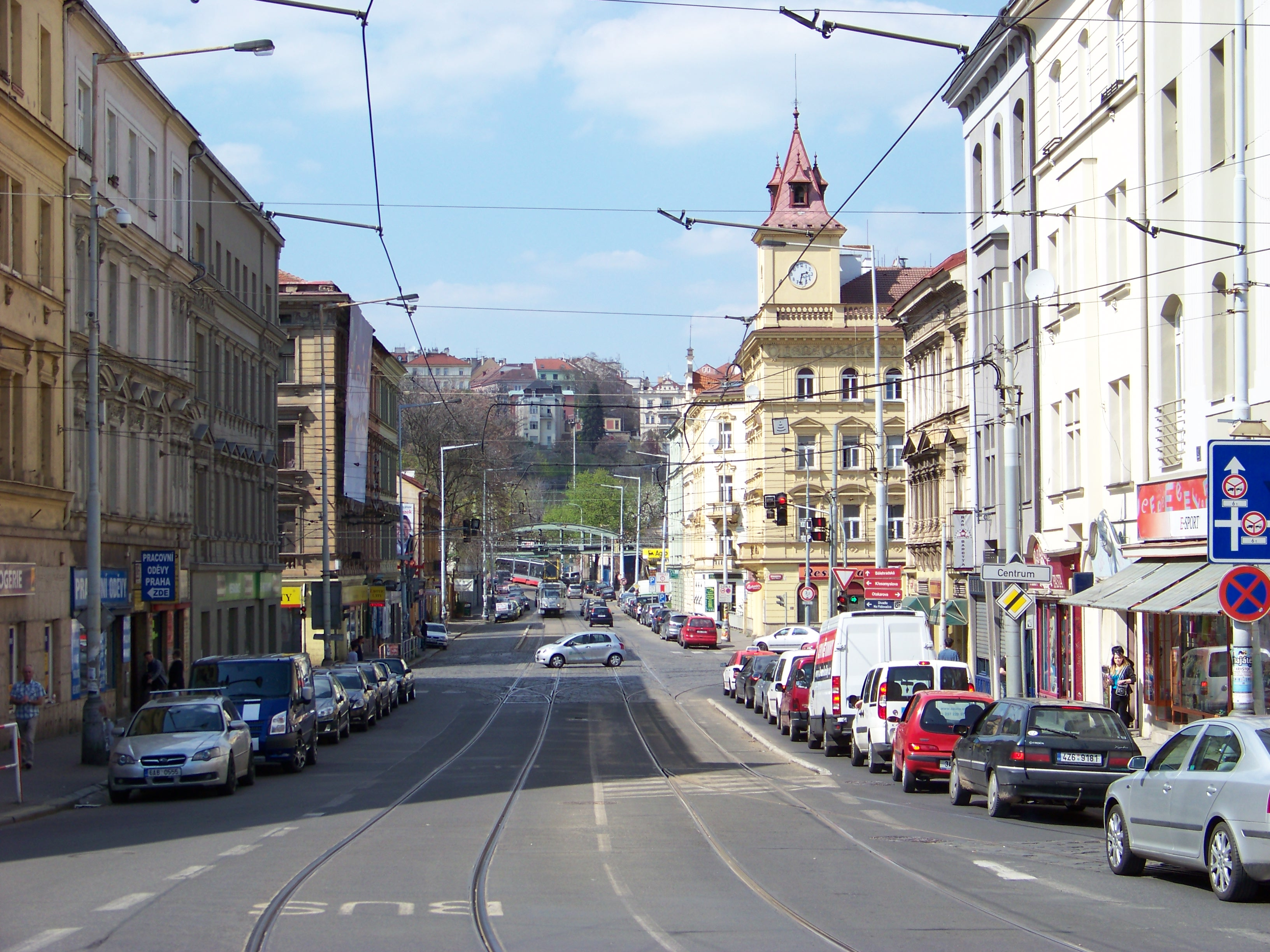 Prague-Nusle, the Czech Republic. Bělehradská street, from Náměstí Bratří Synků.